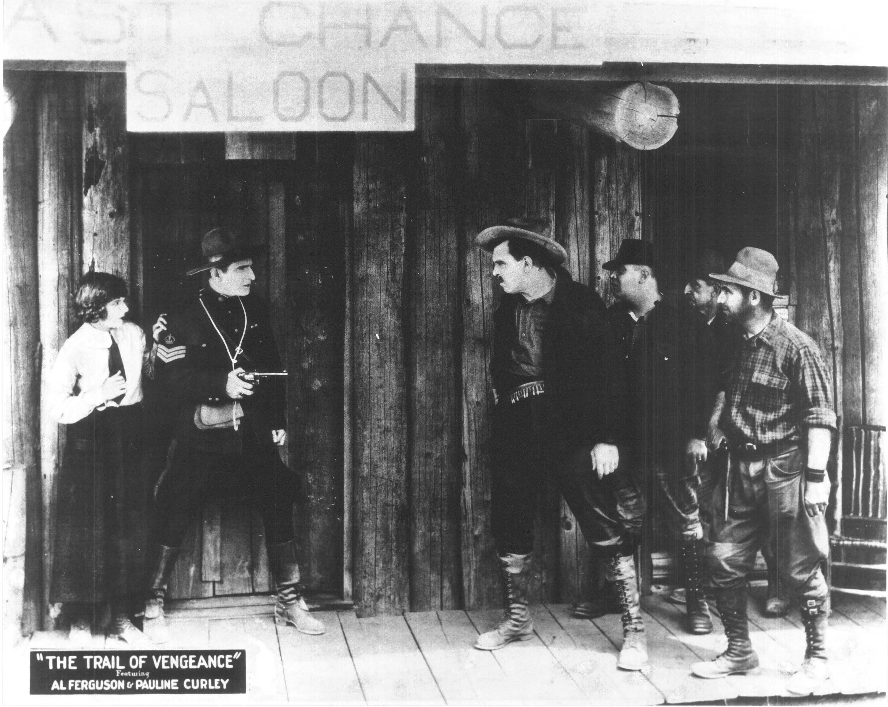 The Trail of Vengeance (1924). Historical images of Beaverton, Oregon.